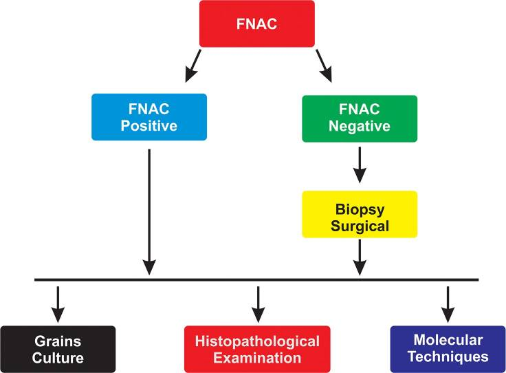 Flow chart for the diagnosis of mycetoma